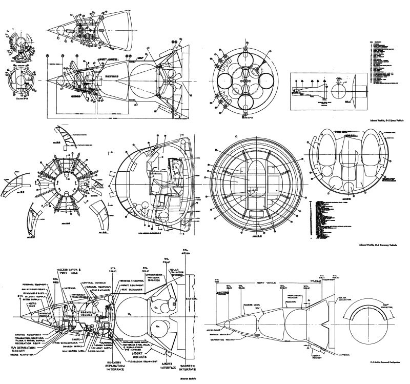 Project Apollo, NASA Contract NAS 5-302, May 15, 1961, GE Feasibility Study Drawings for D-2 Capsule